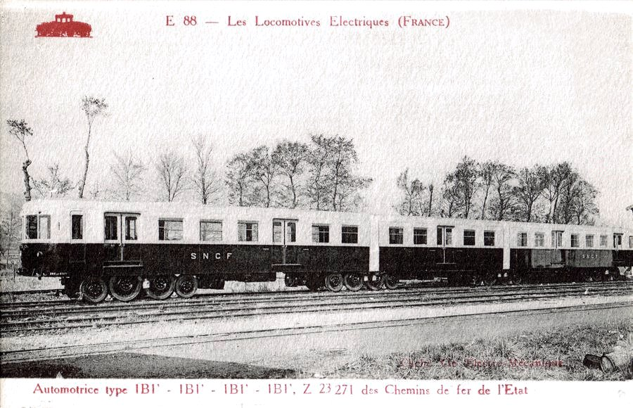 Electric Micheline class 136 M+R+M (1B1)+(1B1)(1B1)+(1B1) SNCF (ex Etat) Z 23271, 1939. Paris to Saint-Germain & Auteuil line.